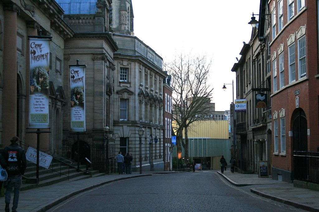 High Pavement Looking roughly west. The Courts of Justice museum is on the left and the Cock and Hoop pub on the right. At the end of the road is the Nottingham Contemporary art gallery.